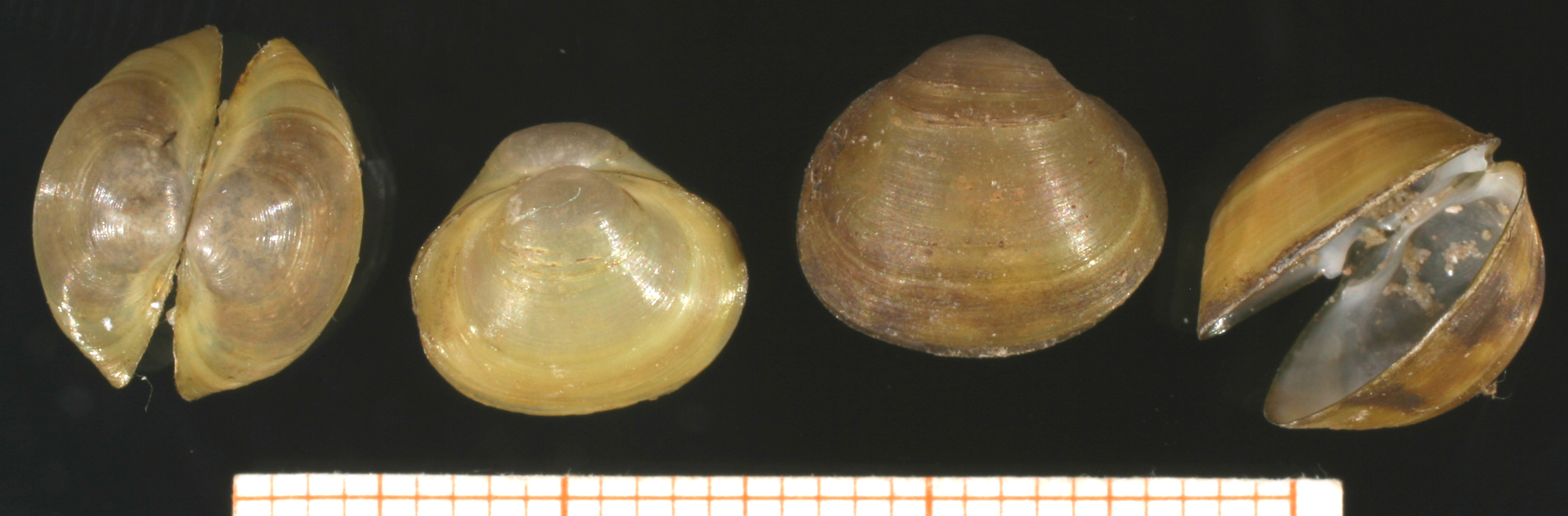 Photo of Sphaerium corneum. Scale in mm. Locality: N Germany: Hagener Au, Passader See. Date: 1982.